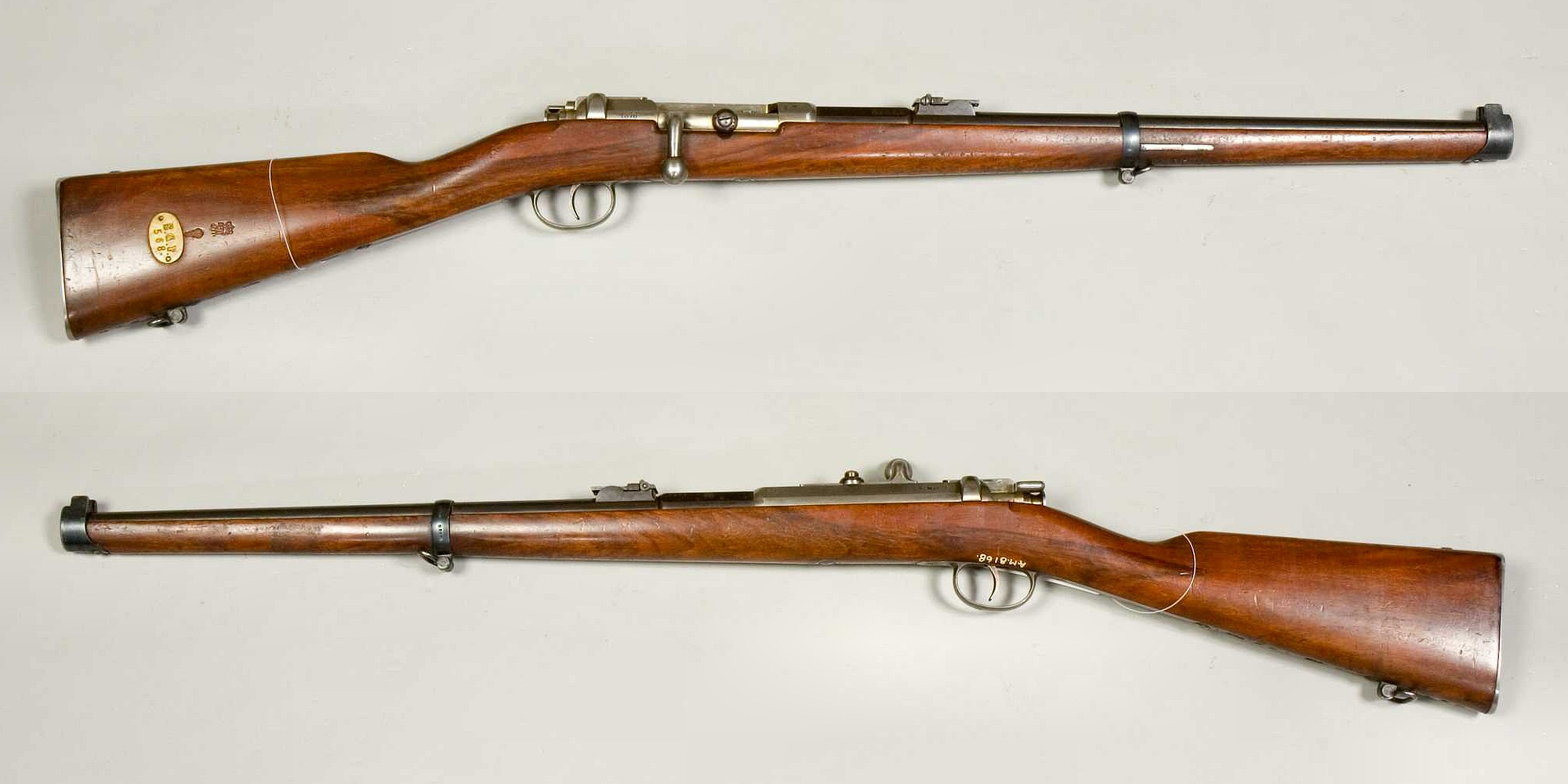 Mauser Model 1871 cavalry carbine, Germany. From the collections of Armémuseum (Swedish Army Museum), Stockholm.